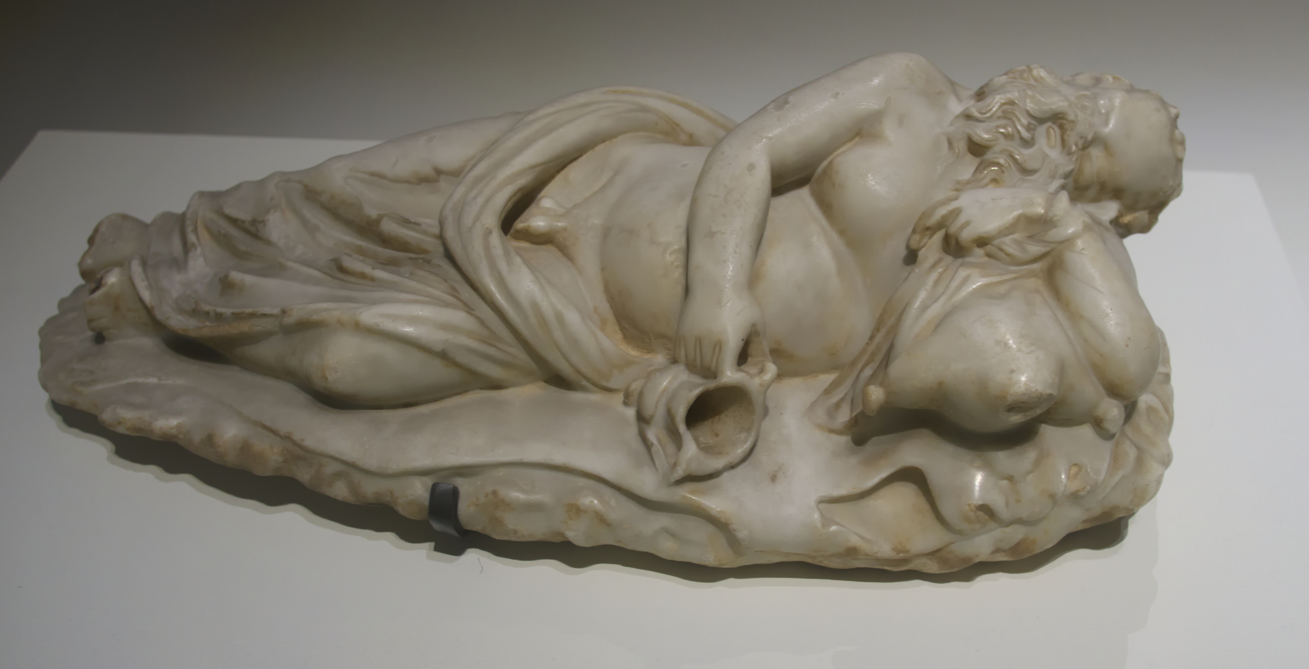 photograph taken during the temporary exposition that took place at the MuCEM of Marseille in august 2014.